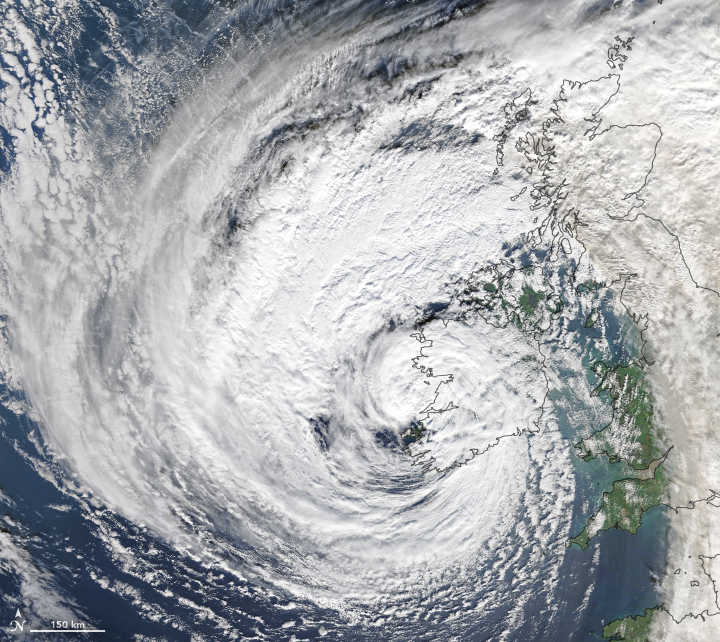 Hurricane Ophelia weakened and devolved into a post-tropical cyclone on the evening of October 15, 2017. However, the storm maintained enough strength to deliver destructive winds and rain to Ireland and the United Kingdom the next day. The Moderate Resolution Imaging Spectroradiometer (MODIS) on NASA’s Terra satellite captured this image of Ophelia at 12:55 p.m. local time (11:55 Universal Time) on October 16, 2017.